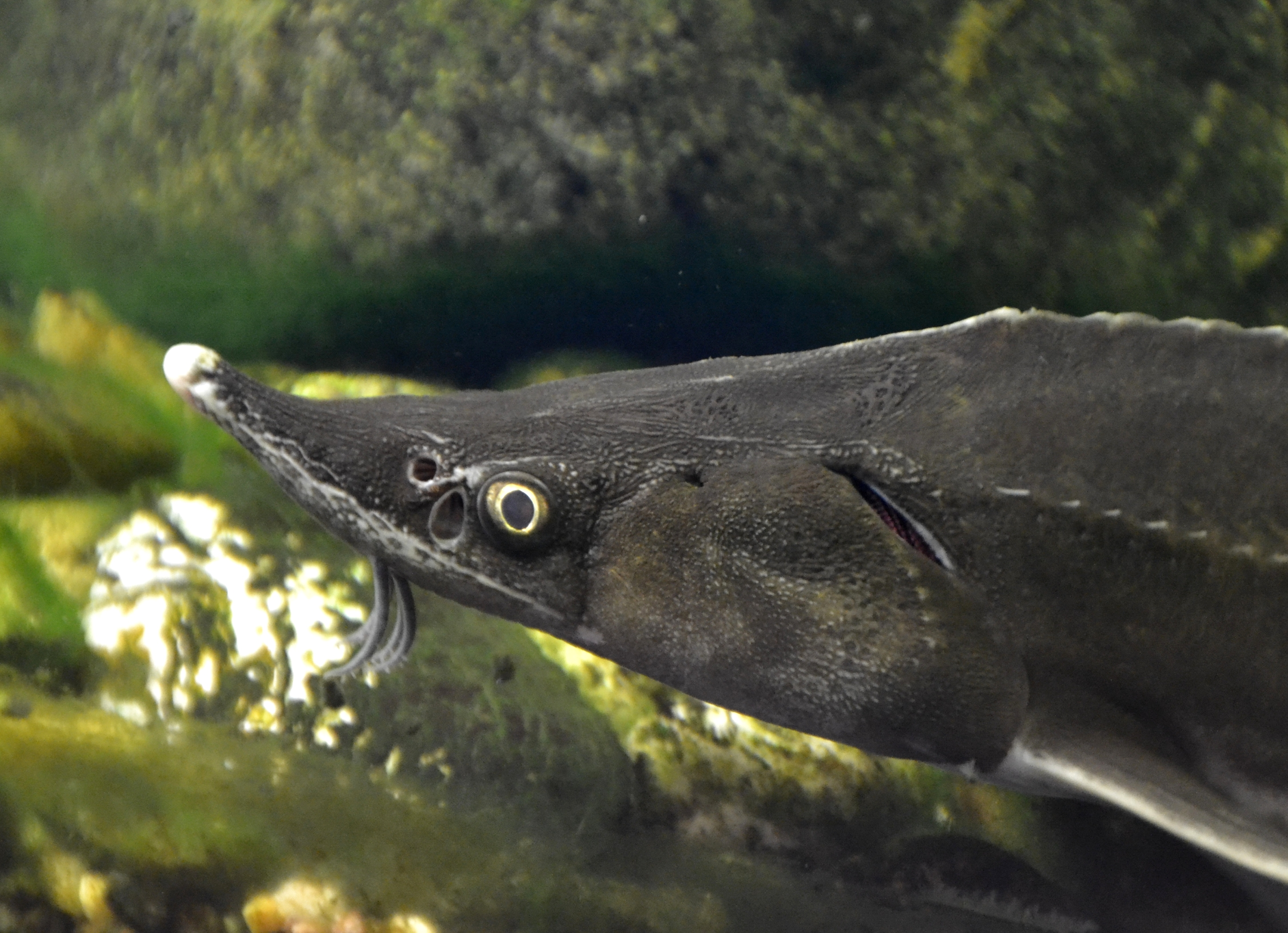 Acipenser ruthenus in an aquarium.